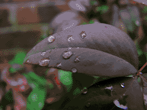 Illustration at 4 bits